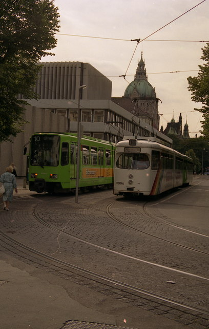 New Rathaus tram terminus, Hannover